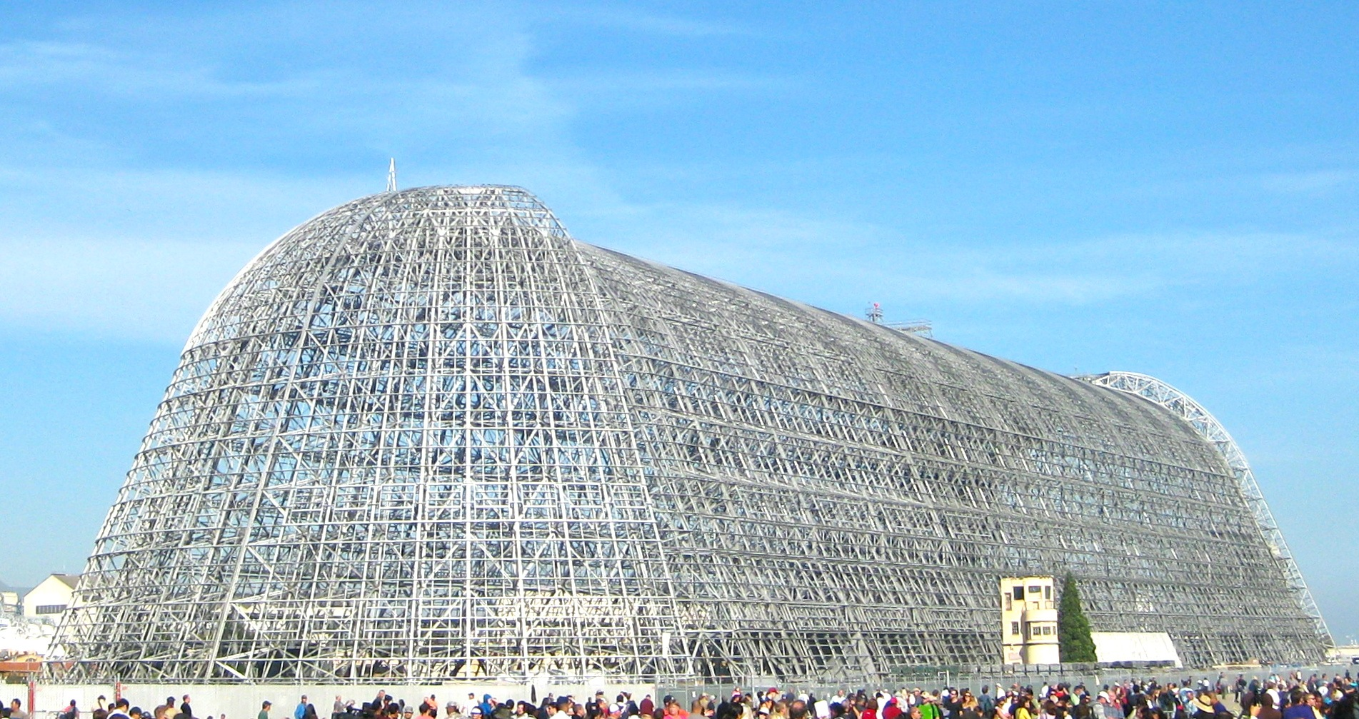 Hangar One at Moffett Field, photographed during Shuttle Endeavour final flyover